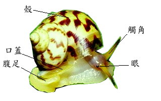 The struture of Order Neritopsina, now. a clade Neritimorpha.